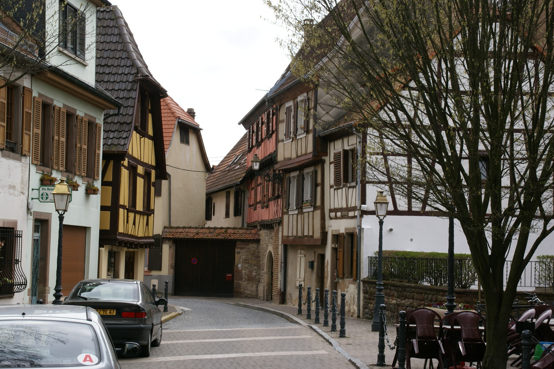 Rue Notre-Dame in Molsheim, Alsace, France